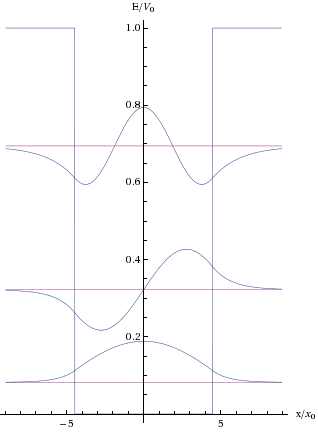 This shows the three solutions the Schroedinger equation for a finite well